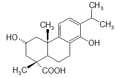 Nemorosin, an abietane from Salvia nemorosa